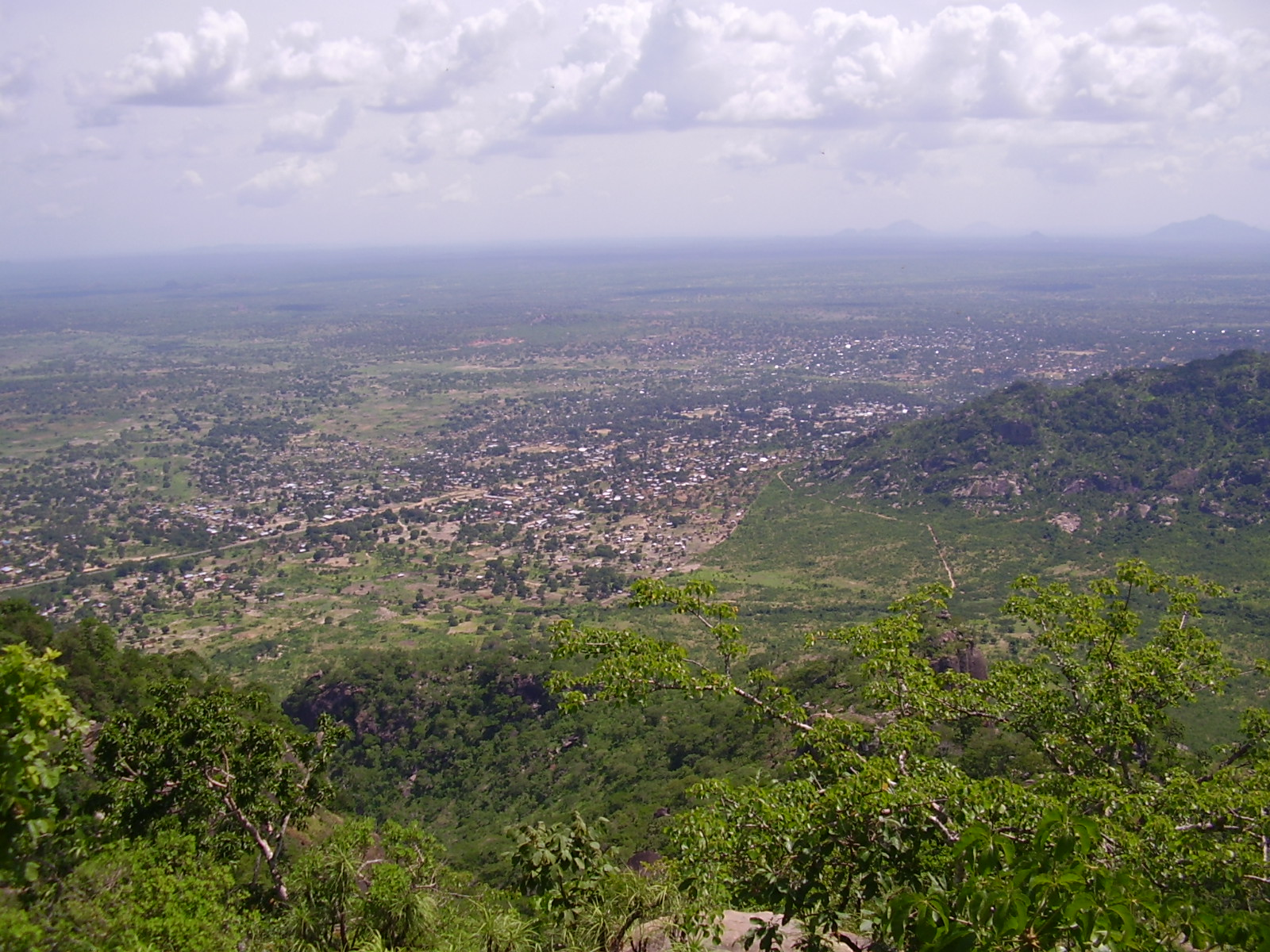 Masasi town in Mtwara Region, with a population of 248000 in 2012, is seen from Mtandi Mountain.